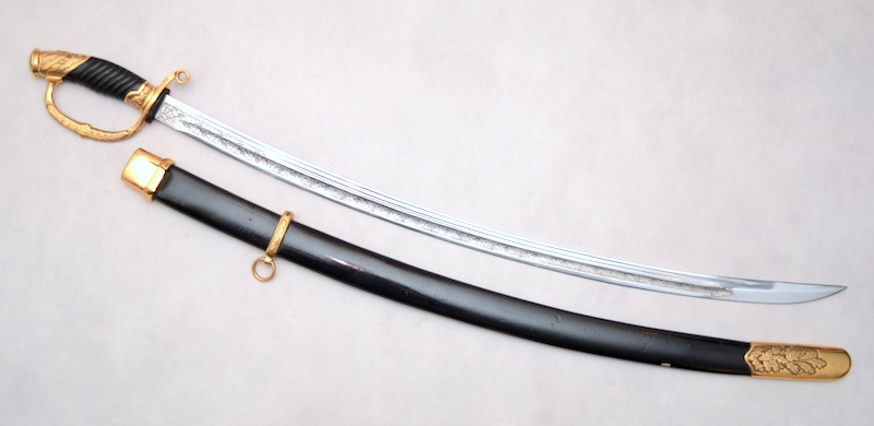 Honor weapon with golden image of the State Emblem of the USSR 6